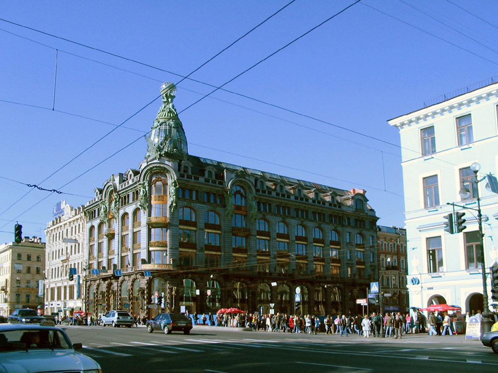 Zinger's house («House of books») in Saint Petersburg, Russia.